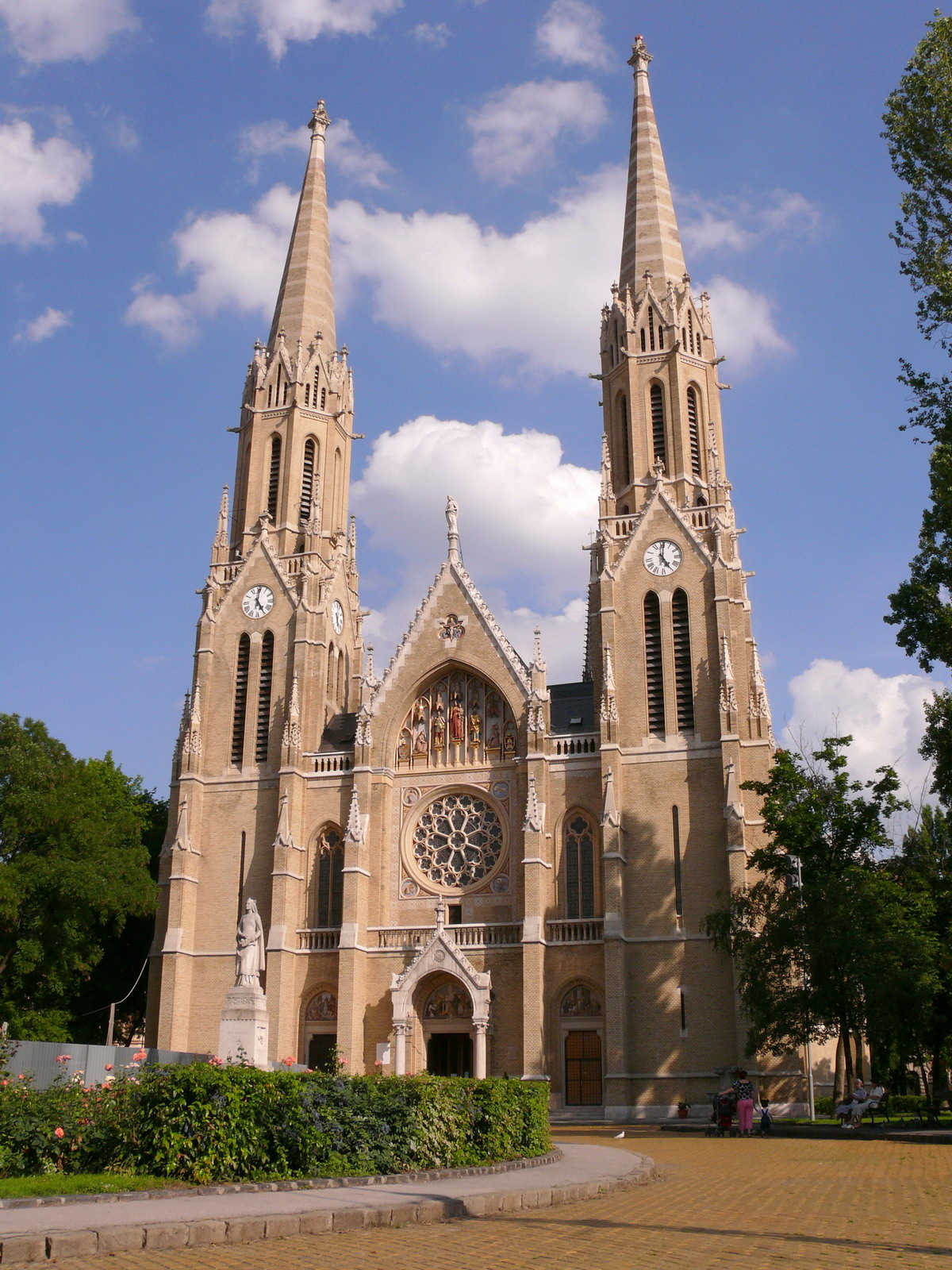 The St Elisabeth Church in Budapest